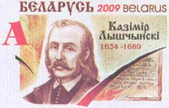 Belarus stamp "375 years from the birthdate of Kazimierz Łyszczyński"